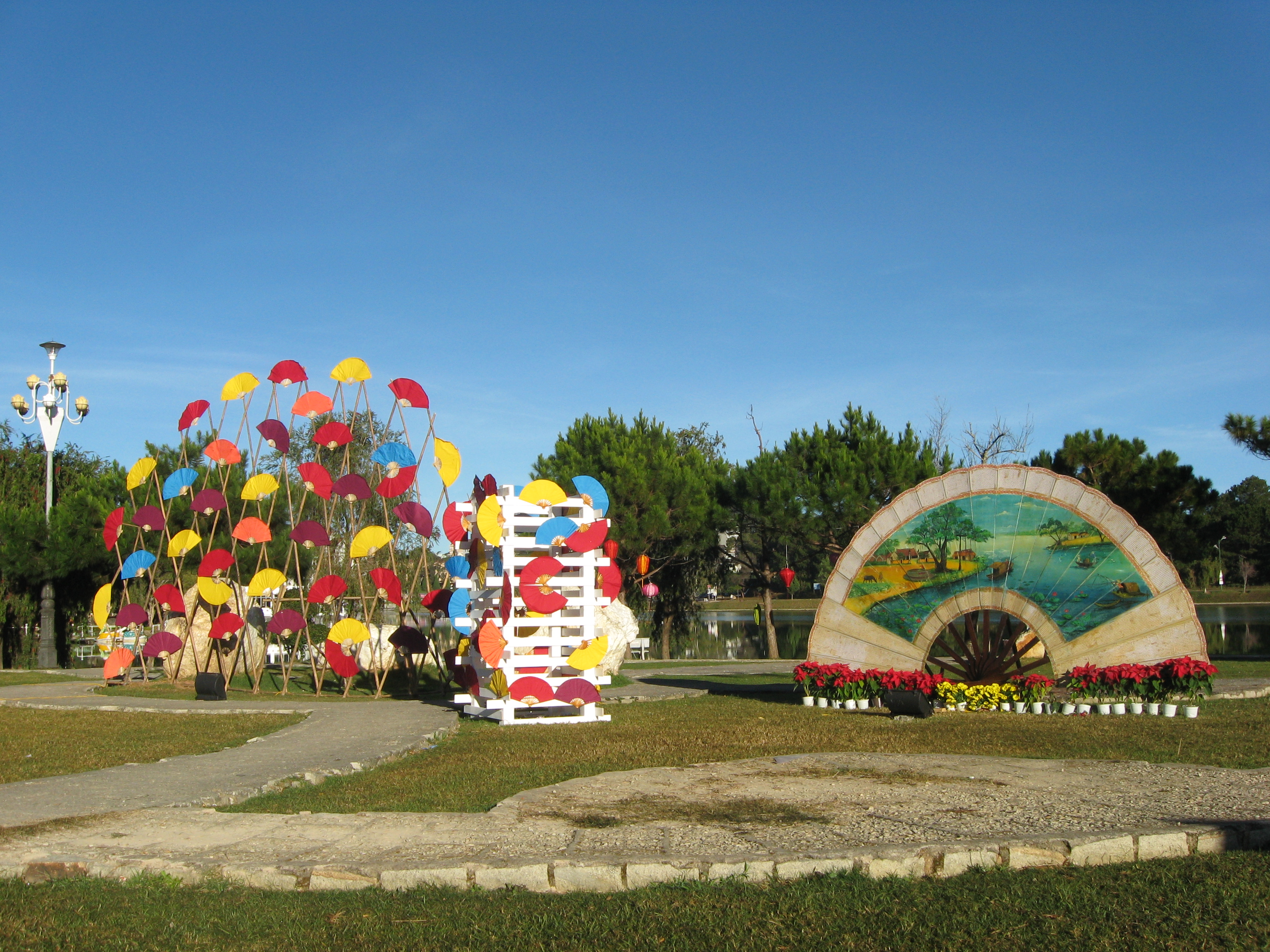 Dalat Flower Festival 2012